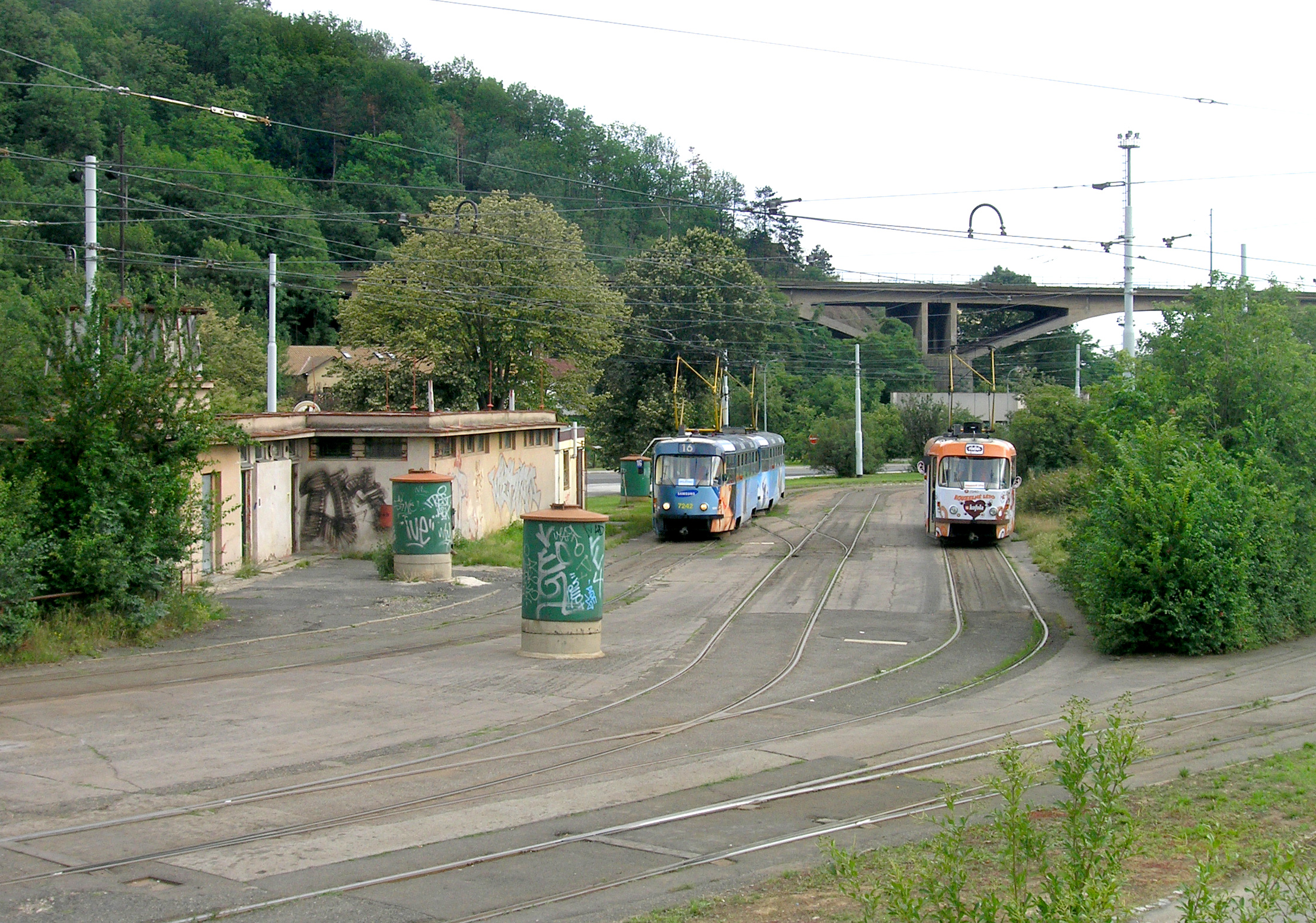 Tram loop by Braník railway station at Braník, Prague